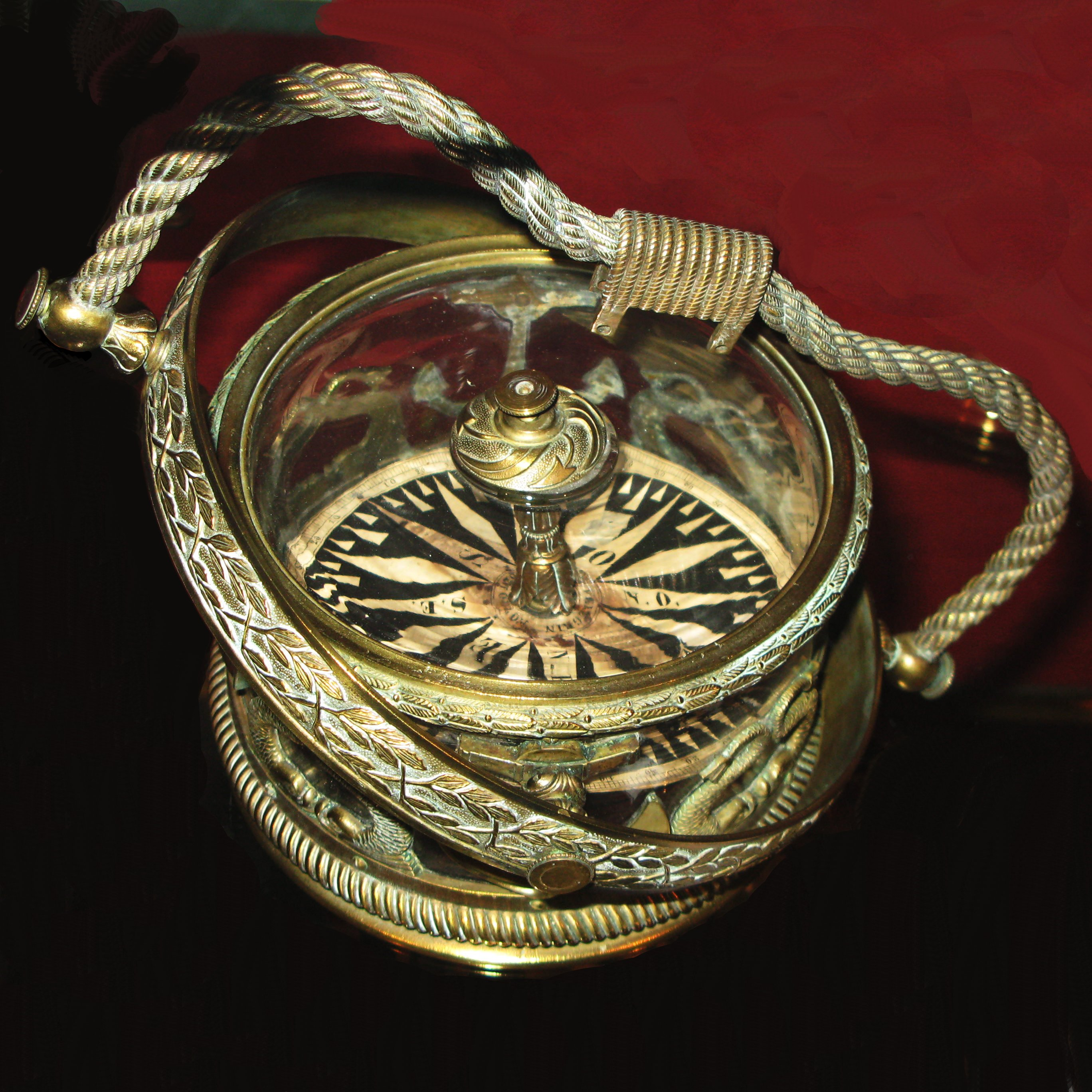 17th century compass On display at Toulon naval museum. Access number 1 NA 52